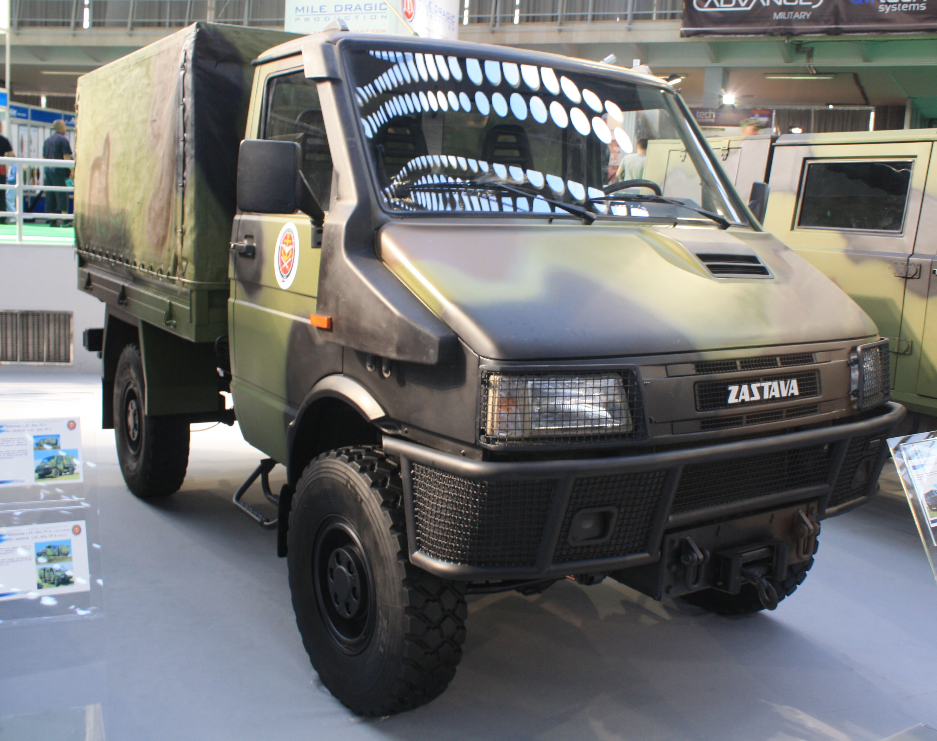 New military truck from Zastava Trucks, NTR 40.12 HKWM in 2+1 configuration on display at Partner 2013 military fair.